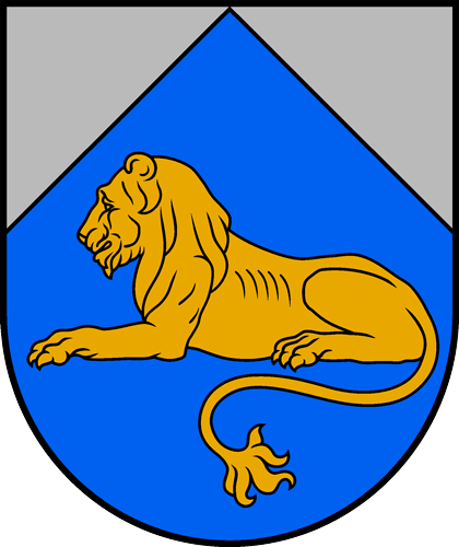 Coat of arms of Naukšēni municipalityLatviešu: Naukšēnu novada ģerbonis